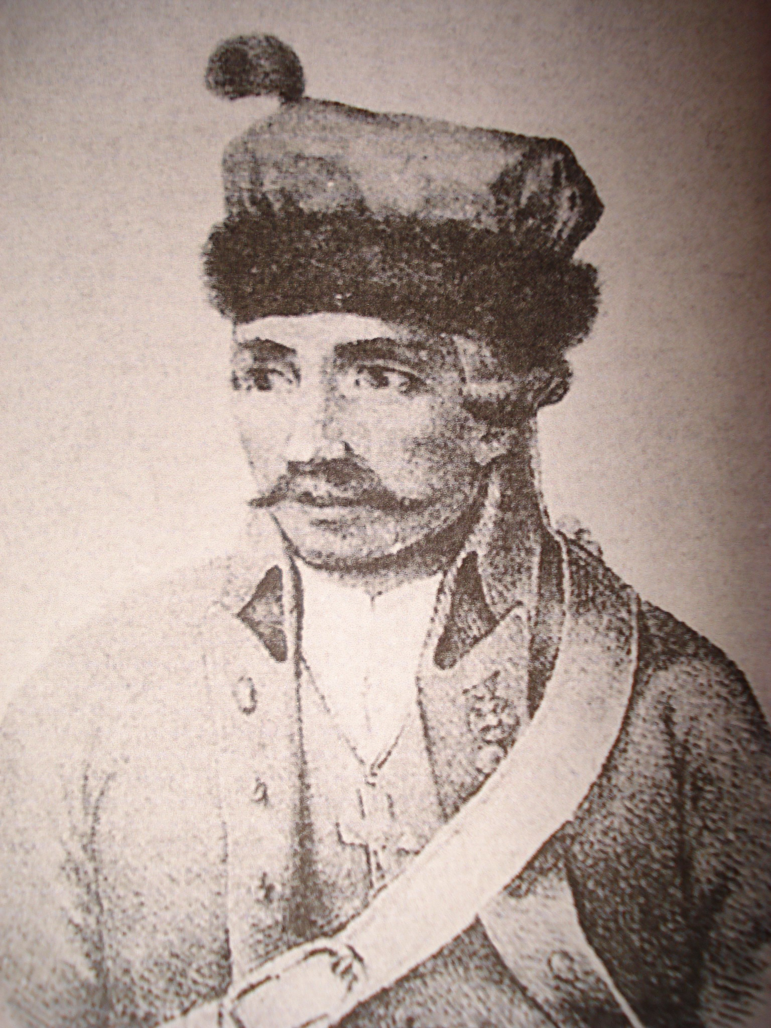 Baron Matija /Matthew/ Rukavina of Boynograd (1737-1817), Croatian nobleman and general of the Habsburg Monarchy imperial armyHrvatski: Matija barun Rukavina Bojnogradski (1737-1817), hrvatski plemić i general carske vojske Habsburške Monarhije